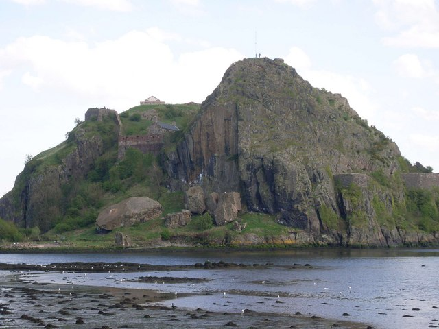 Closer view of Dumbarton Rock Note the Lion Rampant crest on the rock in the foreground.